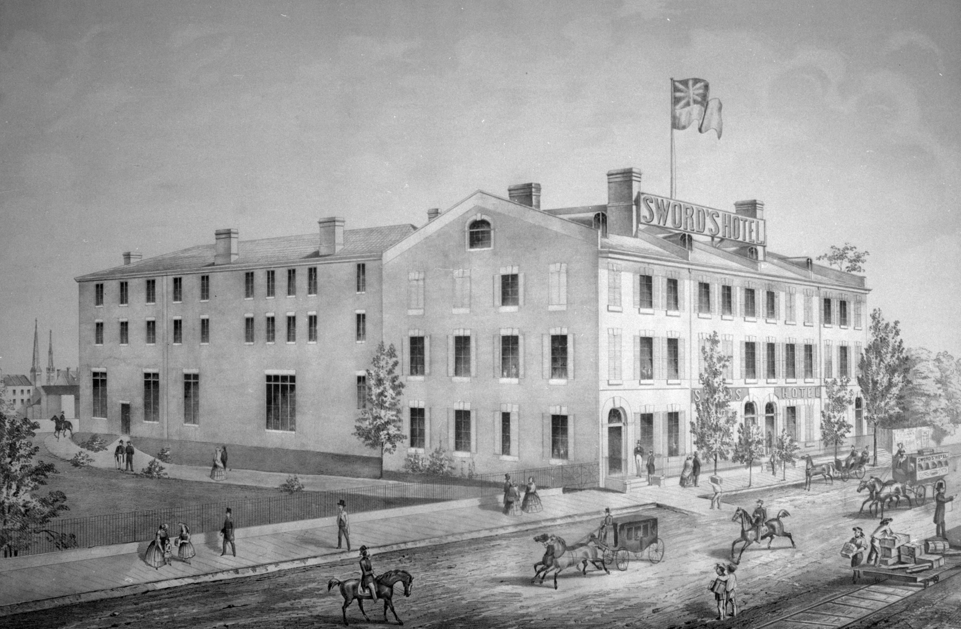 Sword's Hotel, Front Street. Original caption: "Lithograph with blue and cream tint stones on wove paper. Extent: 486 x 731 mm; sheet 593 x 810 mm Date: 1855 Notes: Inscribed on the stone l.r.: Drawn from Nature & on Stone by Maclear & Co. Lithographers Toronto.; b.: SWORDS' HOTEL FRONT STREET TORONTO. / Between York. and Bay Streets / P. SWORDS' PROPRIETOR. JRR (1912) 516." This image is available from the Toronto Public LibraryThis tag does not indicate the copyright status of the attached work. A normal copyright tag is still required. See Commons:Licensing. English | français | +/−